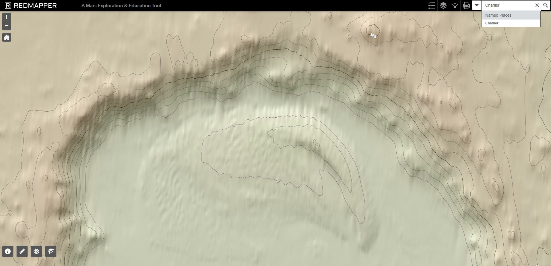 This topographic map was created using Mars Orbiter Laser Altimeter (MOLA) technology on the Mars Global Surveyor spacecraft. This image is a screenshot of RedMapper's website and shows the north rim of Charlier crater.